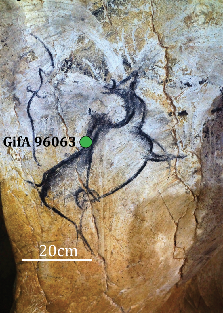 Cave painting of an Irish elk (Megaloceros giganteus) at the Chauvet-Pont d’Arc Cave in Ardèche, France, dated to 36,000 years ago, possibly drawn over the earliest potential known depiction of a volcano. The green dot marks the location of the 14C AMS date